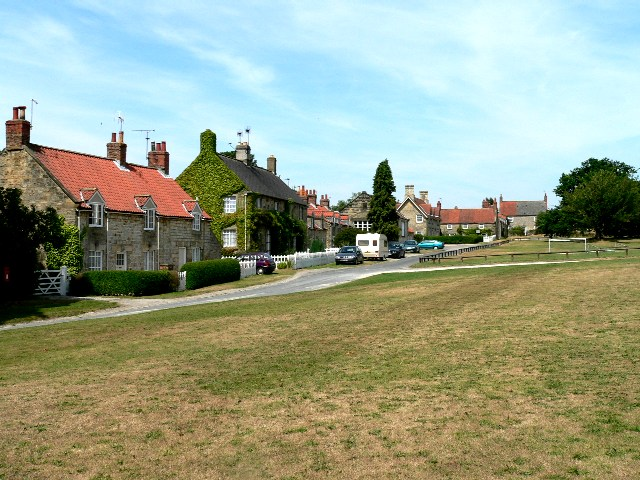 Coneysthorpe